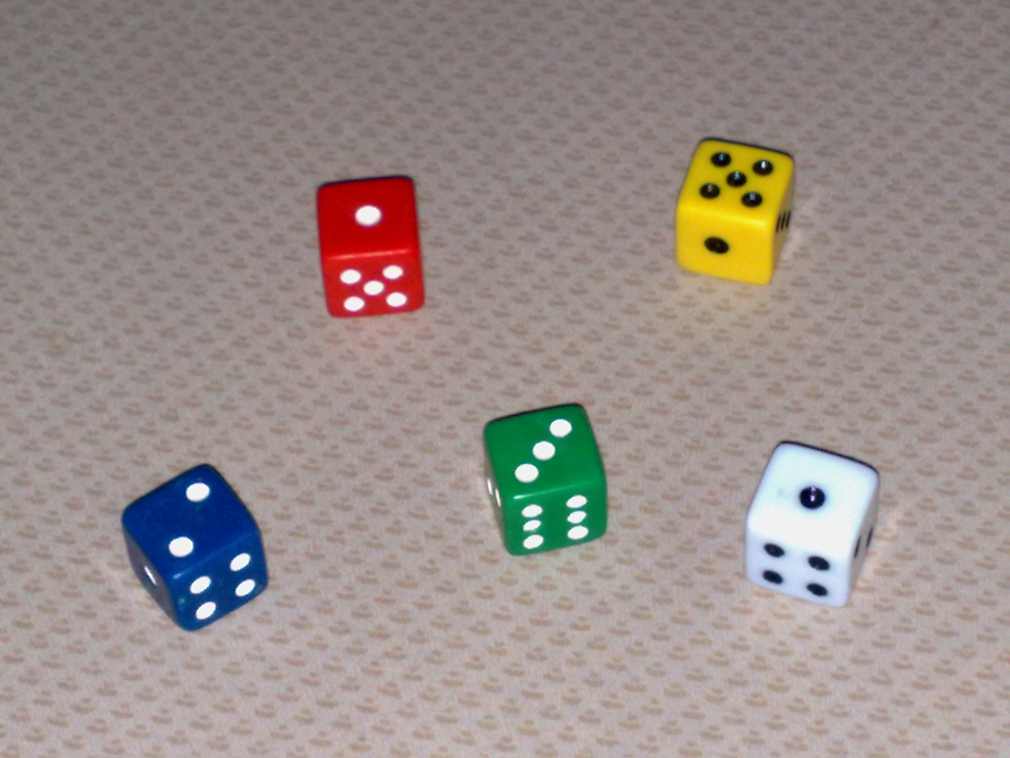 Five differently colored dice. Taken using a Nokia 6220 Classic.